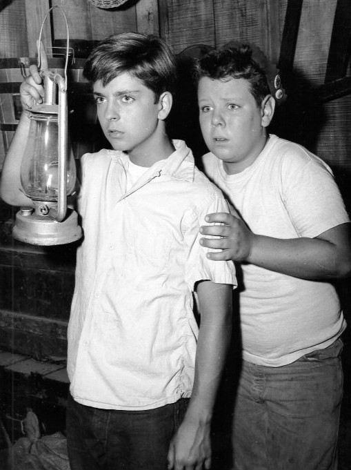 Jeff (Tommy Rettig) and Porky (Donald Keeler - Real name is Joey D. Vieira) in a scene from the television program Lassie.